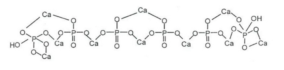 structural formula of hydroxyapatite